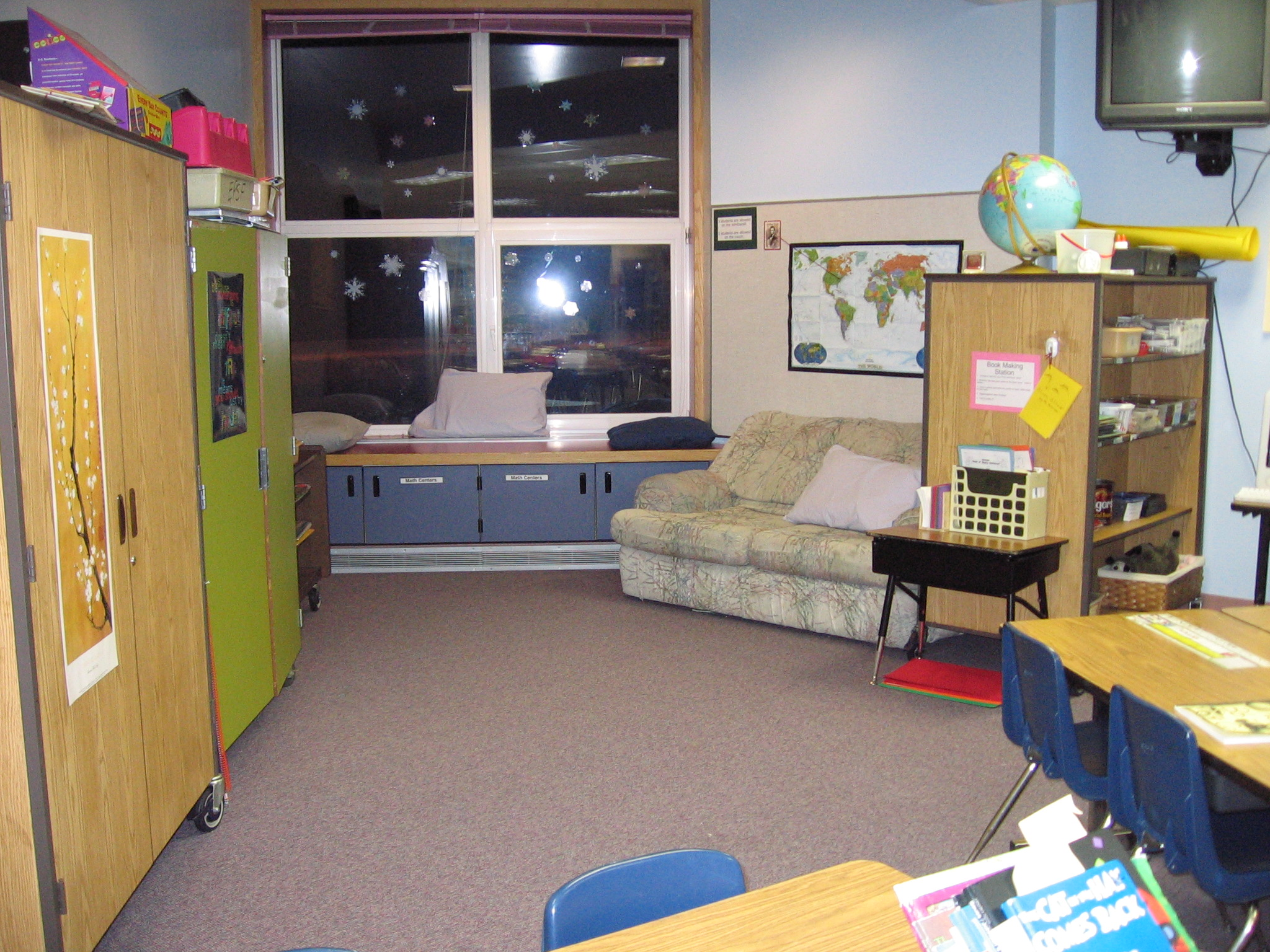 Reading area in a classroomdarkness and reading area